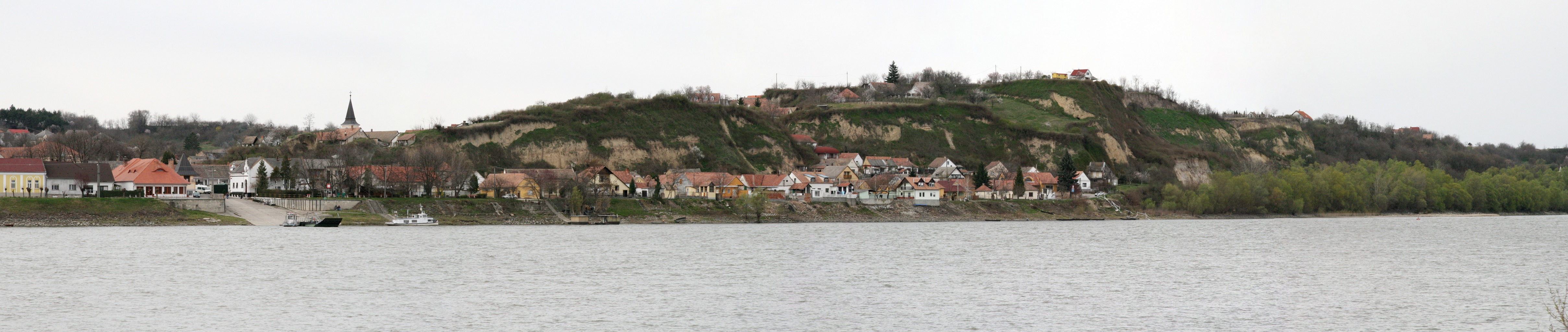 Panorama picture about village Dunaszekcső in Hungary